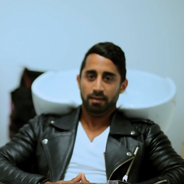 This is from an event in 2012 sponsored by Missguided and featuring its owner Nitin Passi in the video